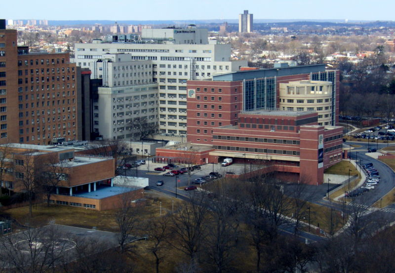 Jacobi medical center (New York)